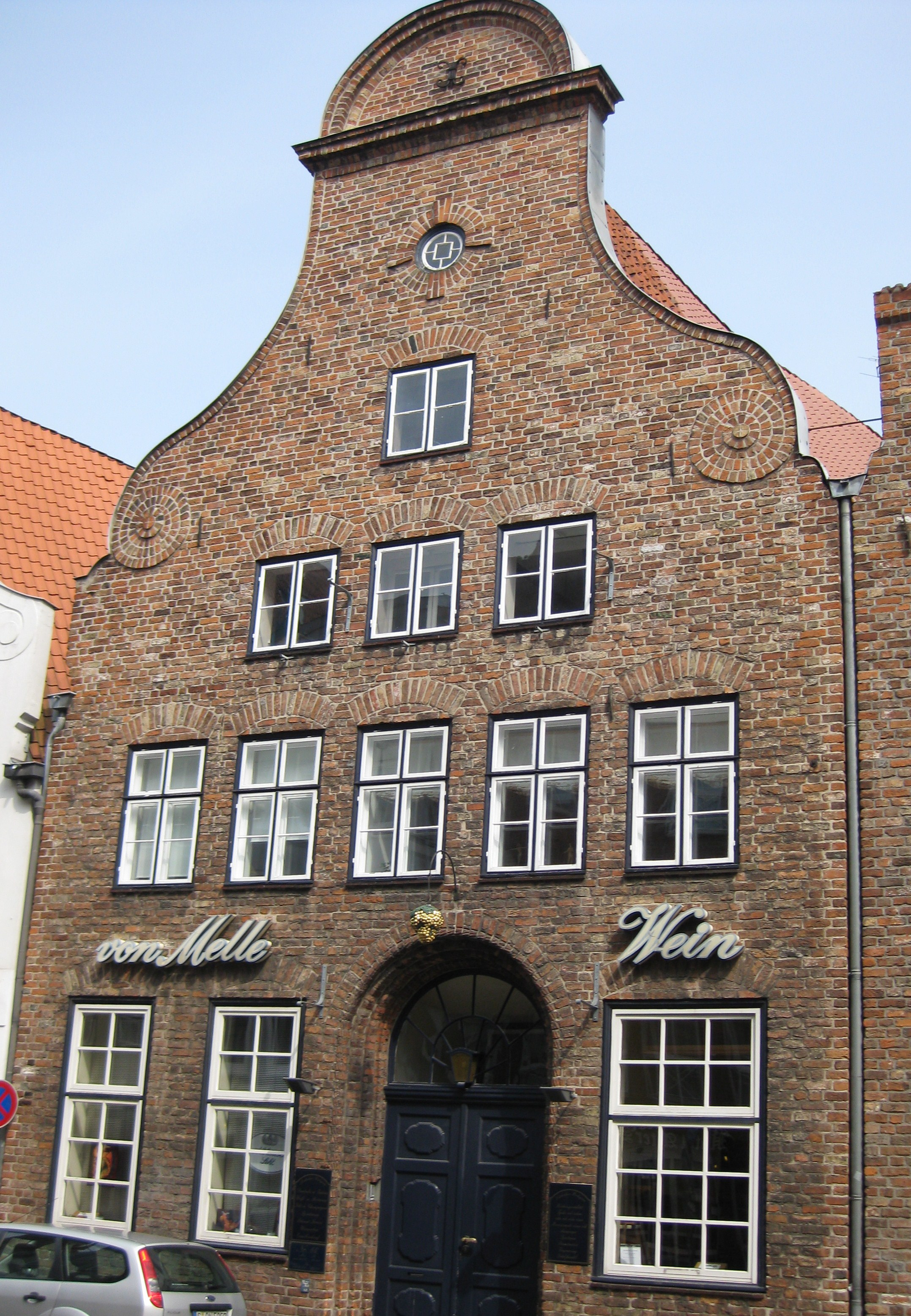 Wine shop "von Melle" in the Beckergrube of Lübeck's old town.